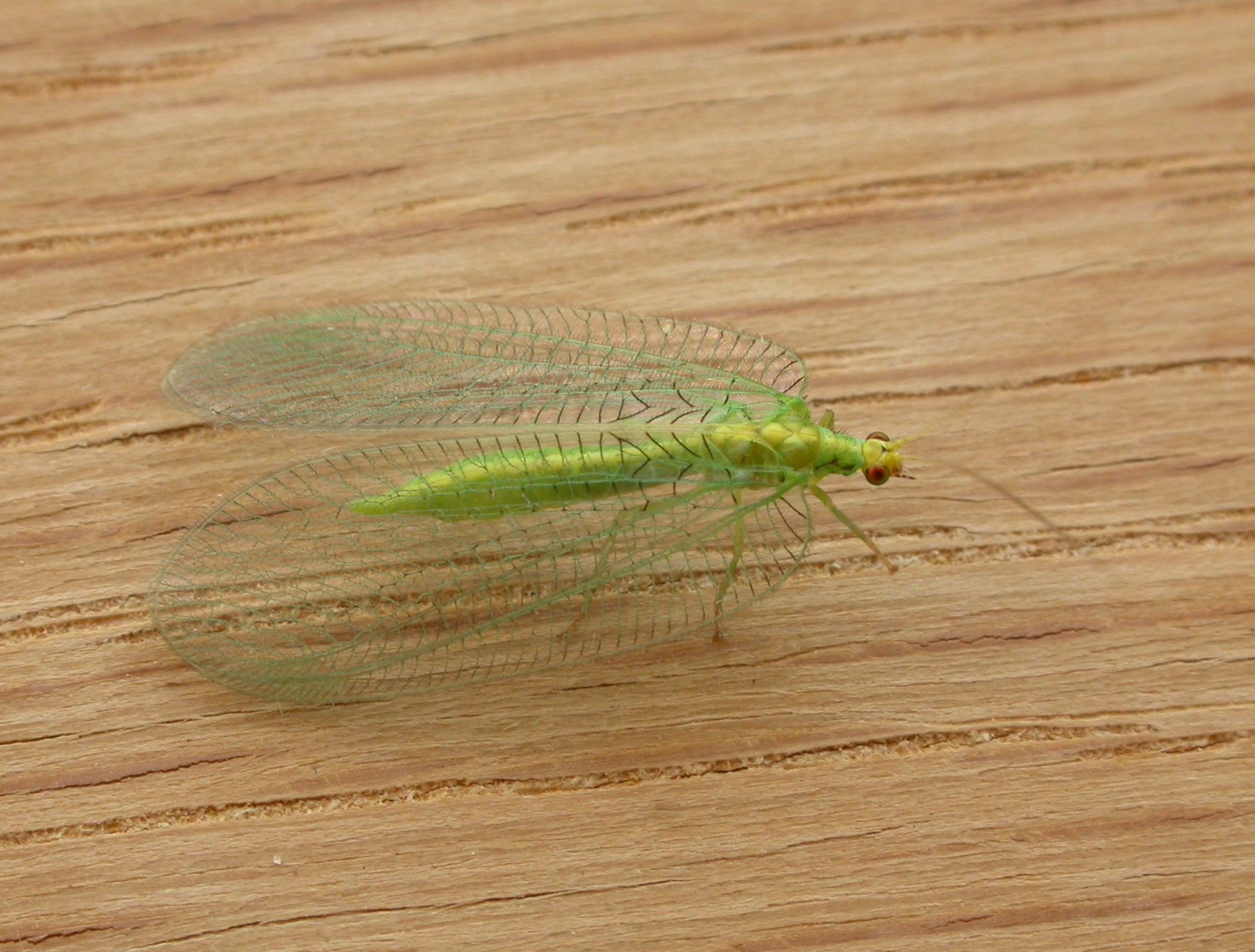 Nothancyla verreauxi Navás, to MV light, Aranda ACT, 5/6 December 2008